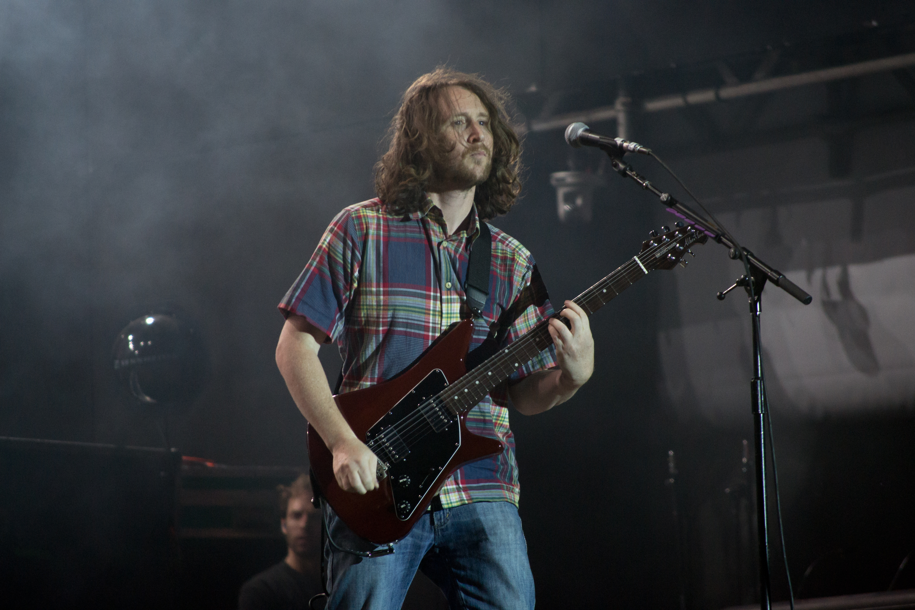 Incubus in Rock in Rio Madrid 2012.